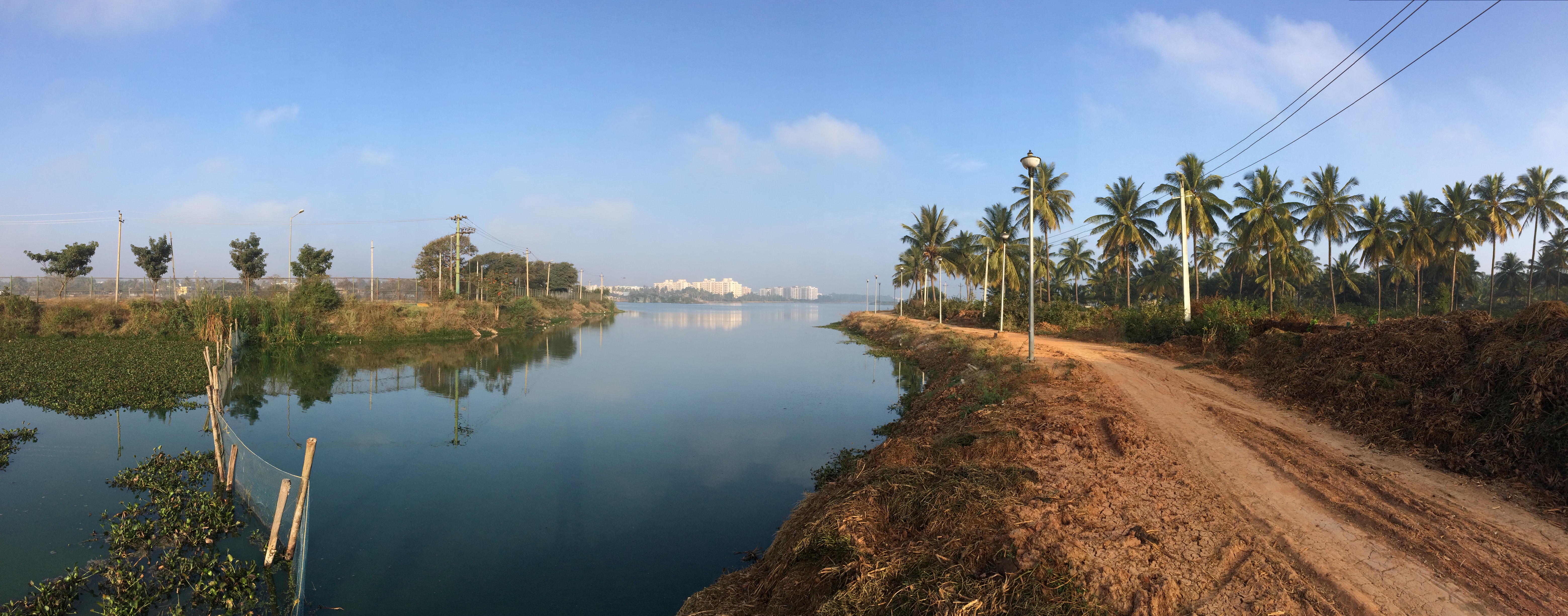 A view of the Jakkur lake, Bangalore, Karnataka, India